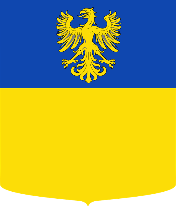 Arimondi shield